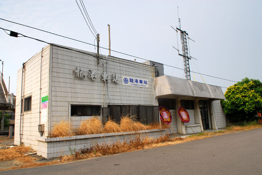 LongGang Station is a small local train station of Taiwan's Western main rail line. It's located within the boundary of HouLong Town, Miaoli County. Originally a cargo station, LongGang Station was down-graded to staffless station after cargo service ceased.